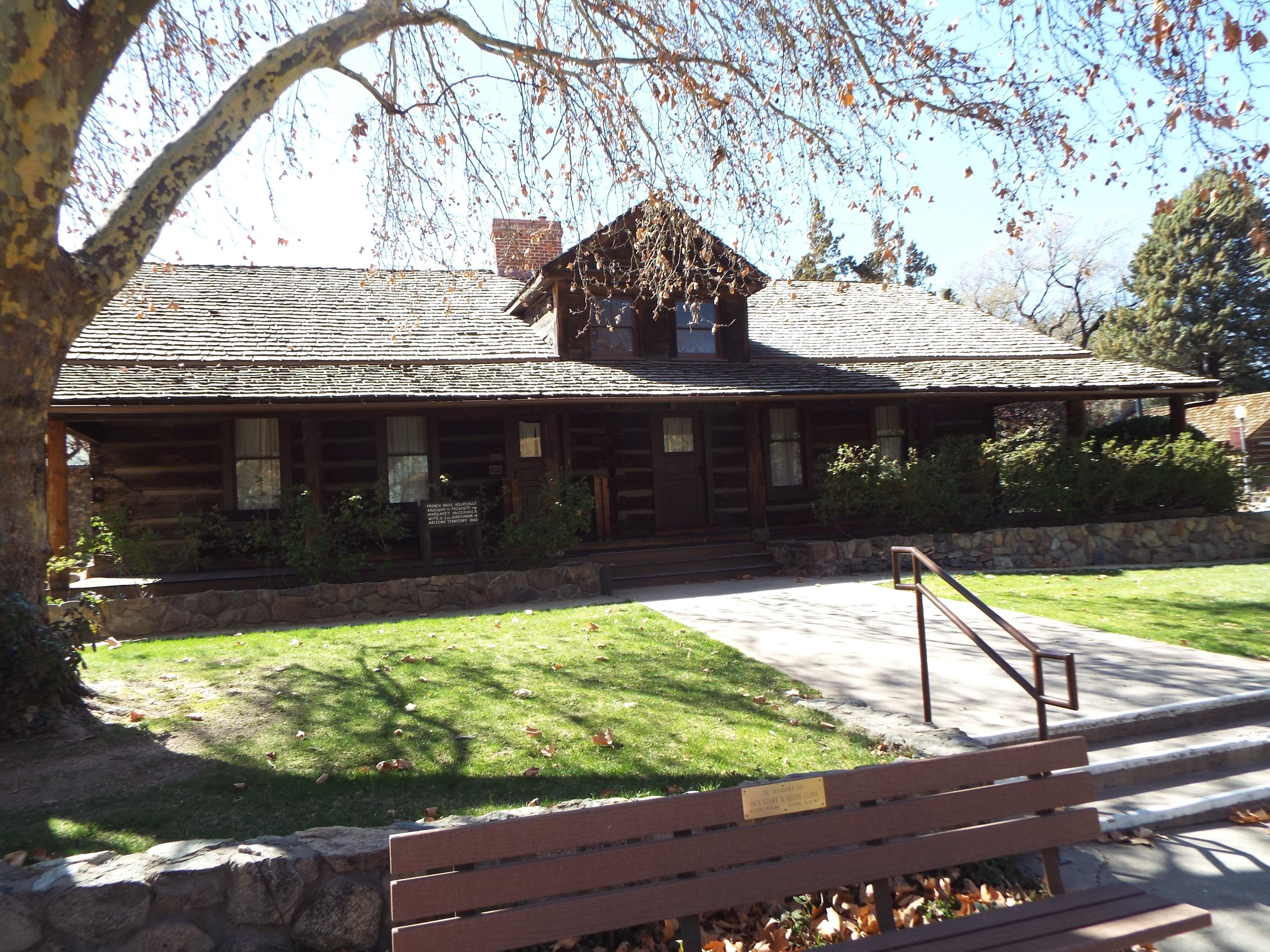 Historic Old Governor's Mansion located on the grounds of the Sharlot Hall Museum in Prescott, Arizona